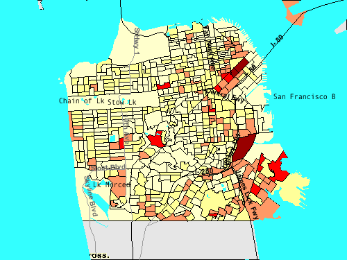 Unemployment in San Francisco.